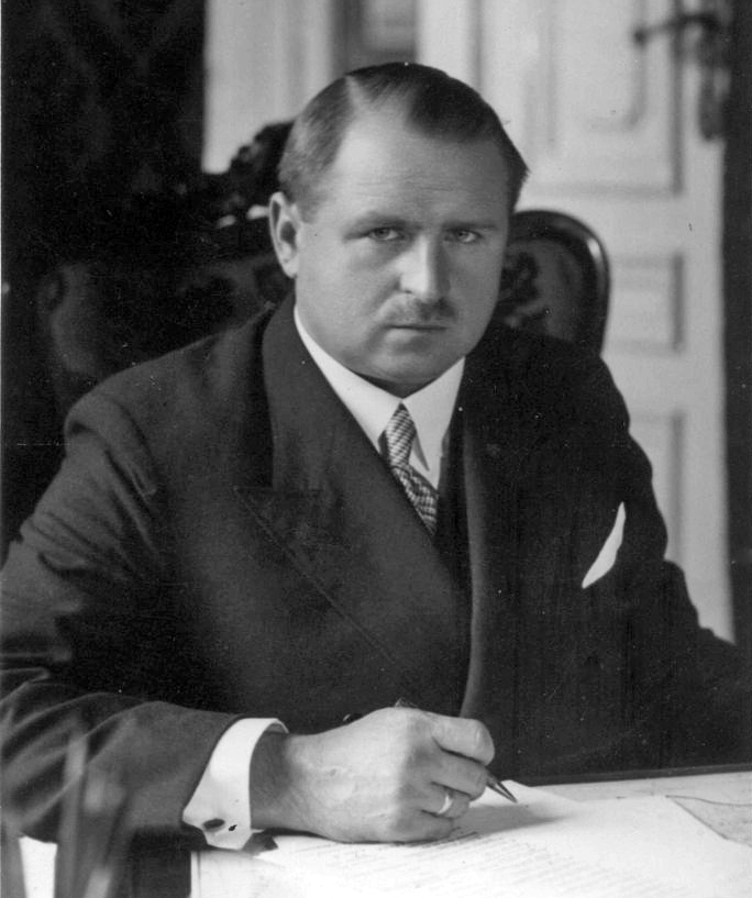 Stefan Starzyński, a pre-war president of Warsaw